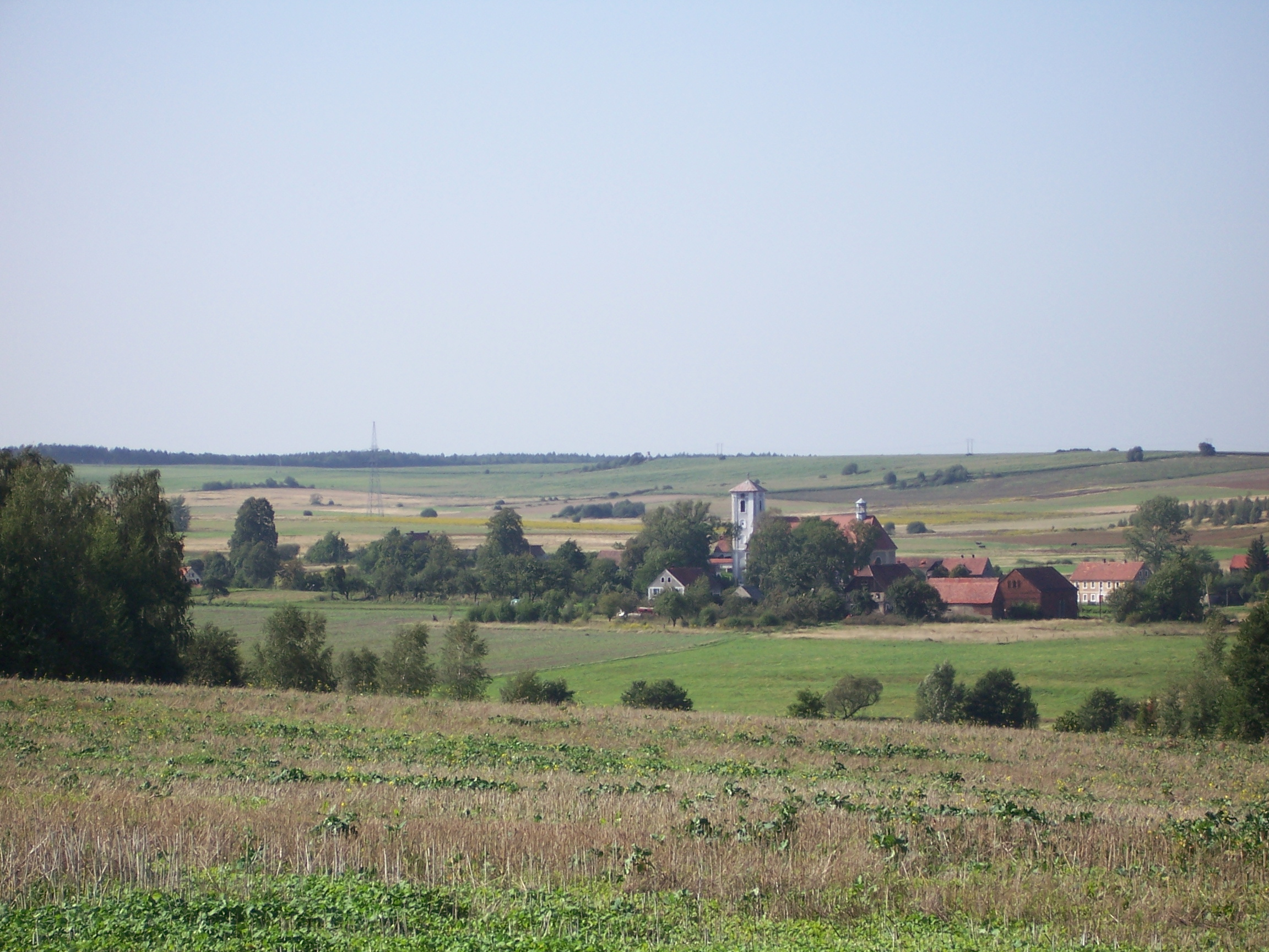 East part of Henrykow Lubanski